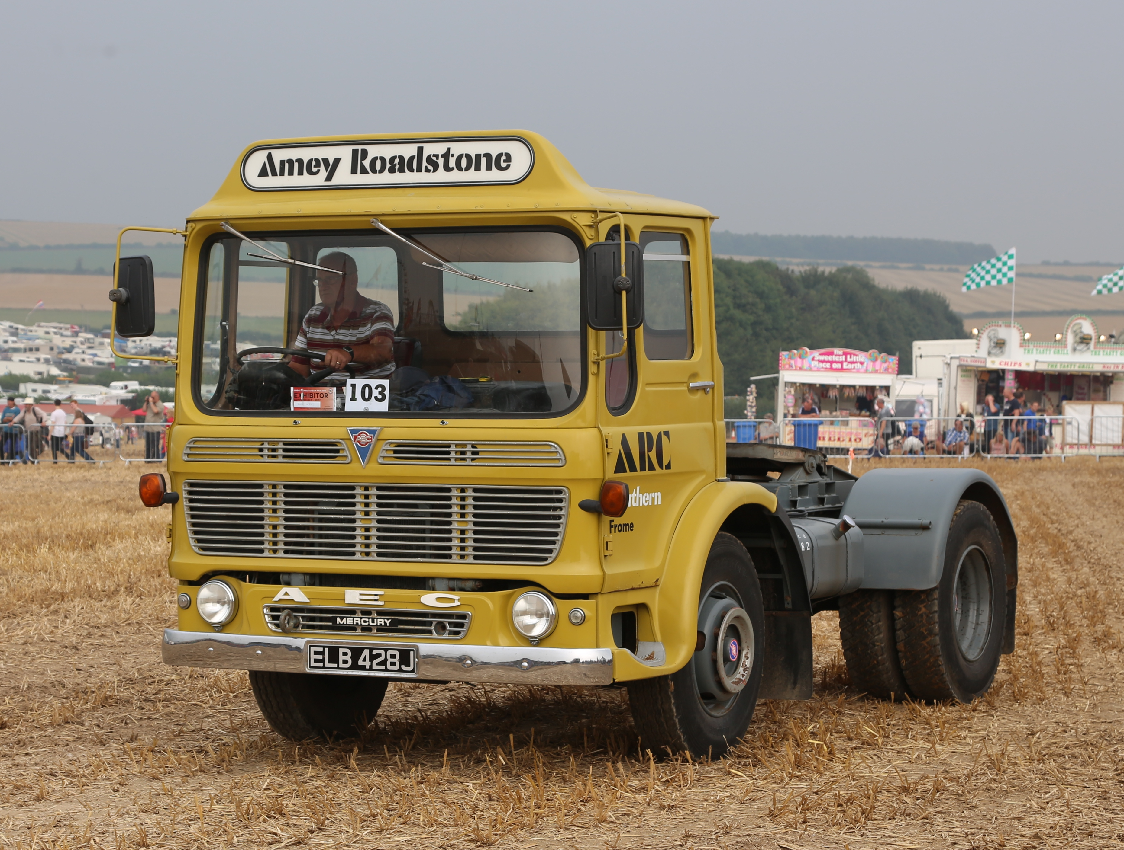 Photo of a 1970 AEC mercury.